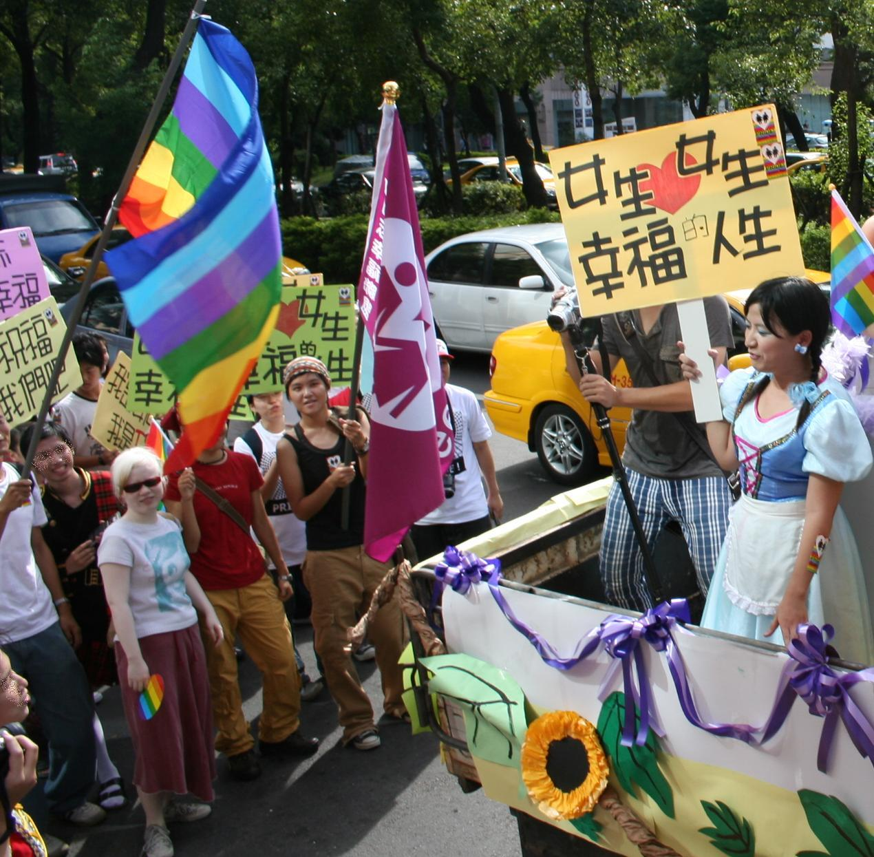 Queen Two on Tun Hwa South Road on Taiwan Pride 2005 Queen Two group, including a young lady with albinism as a participant, followed their "pumpkin truck". (some are "defaced" by photographer for "closet issue") 2005-10-01 14:26 Tun Hwa South Road, Taipei city, Taiwan Photo by user:Atinncnu at Wikimedia. Released in Public Domain.